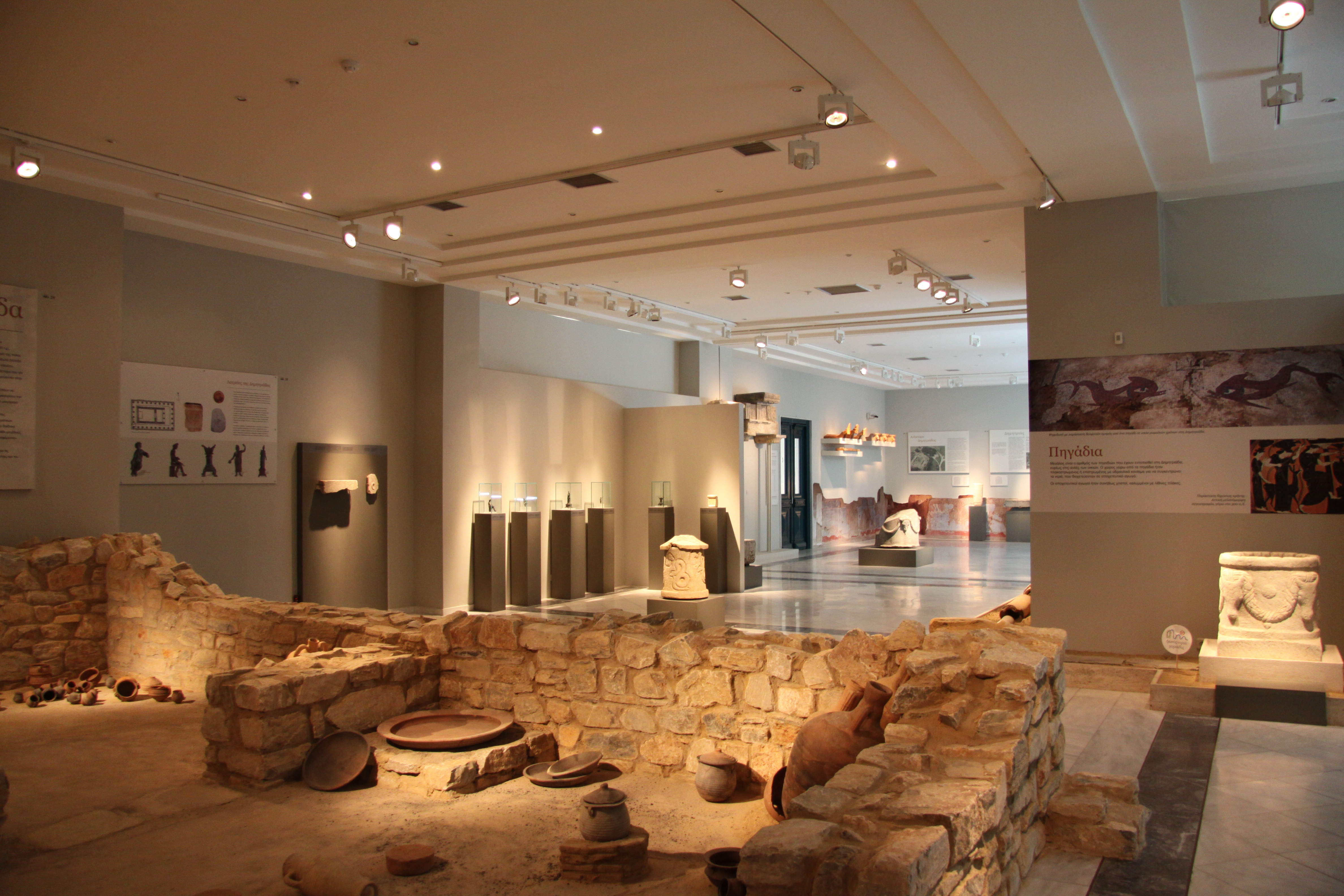 Interior of new chapter's exhibition